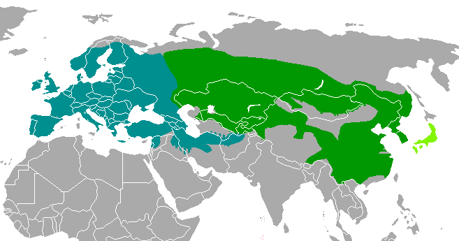 Created to supersede a jpg map Derived from map: Badger species map.png Covers the range of the three Eurasian badgers (Meles sp.) Teal = European badger (Meles meles) Dark green = Asian badger (Meles leucurus) Lime green = Japanese badger (Meles anakuma)